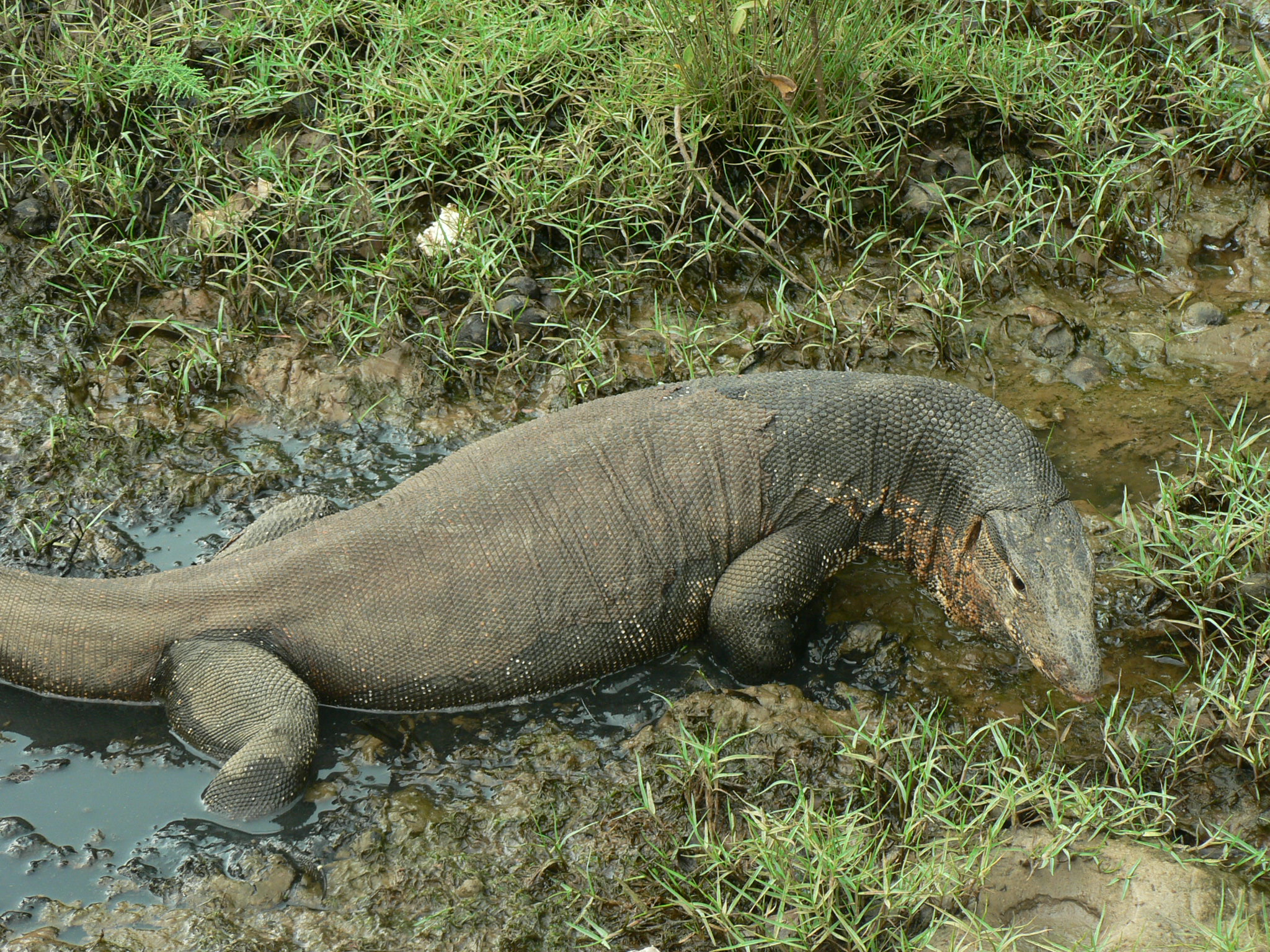 Photo taken in Bhitarkanika Wildlife Sanctuary, Odisha, India